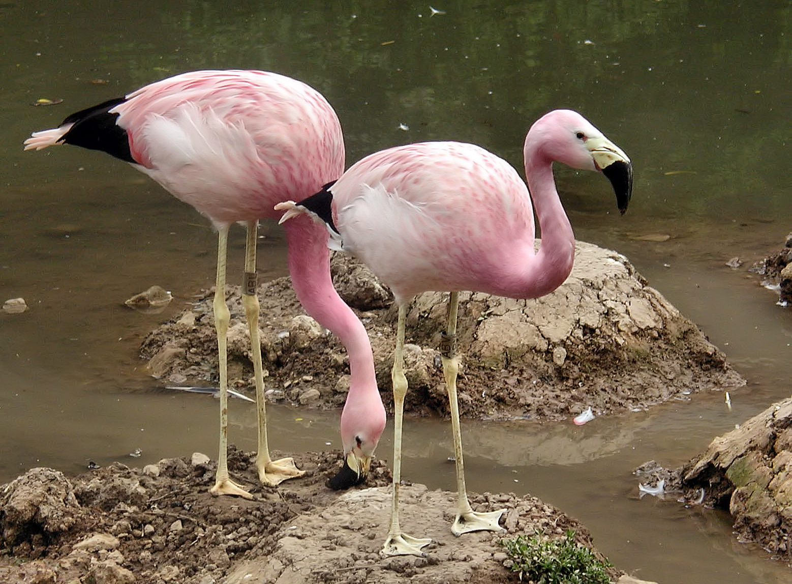 Andean Flamingos at Slimbridge Wildfowl and Wetlands Centre, Gloucestershire, England.